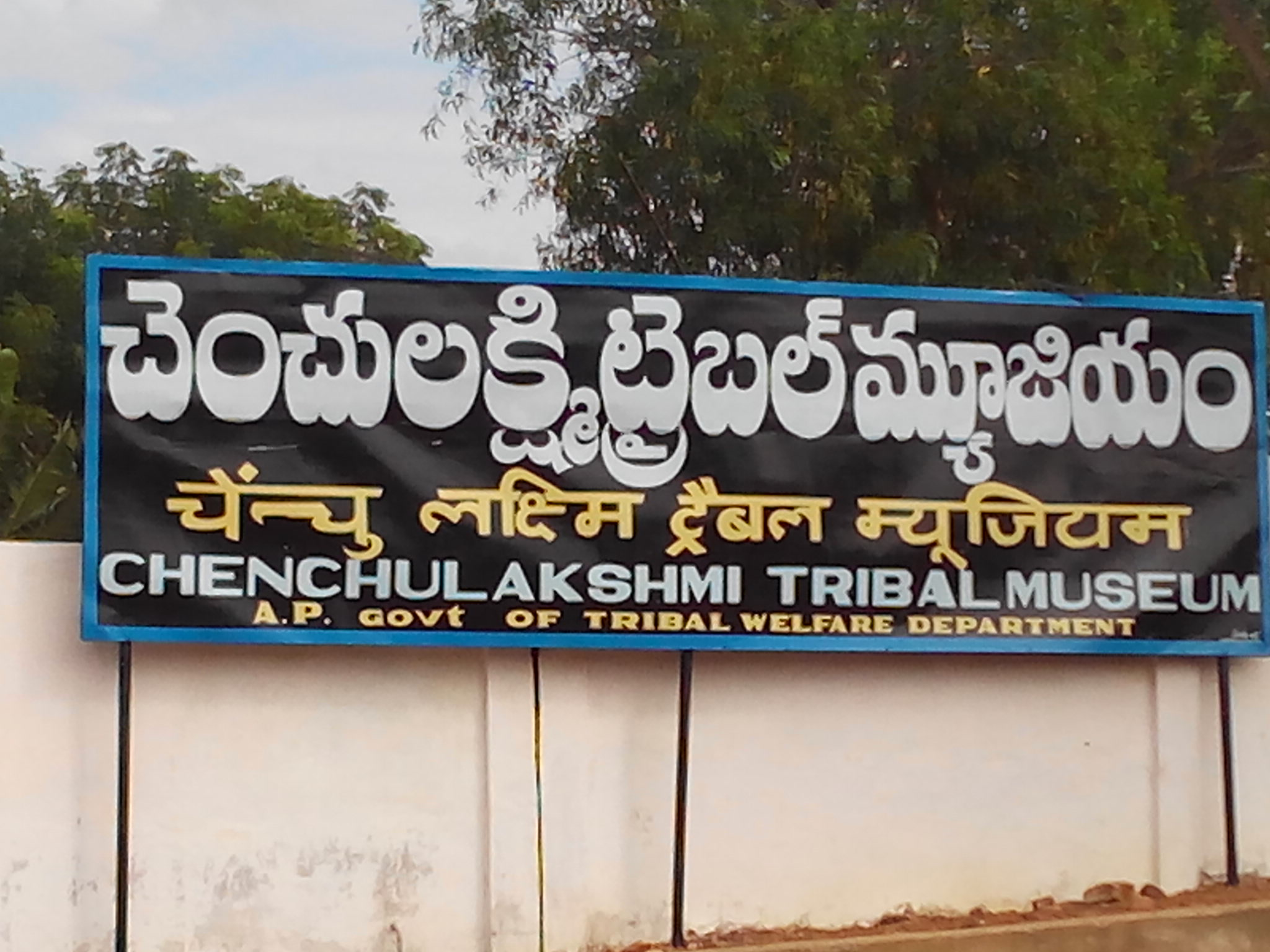 Chencu Laxmi Tribal Musium